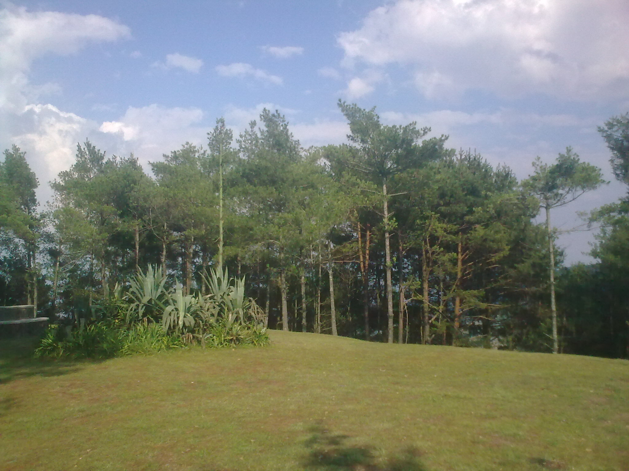 Nagarkot Pinus wallichiana trees ..